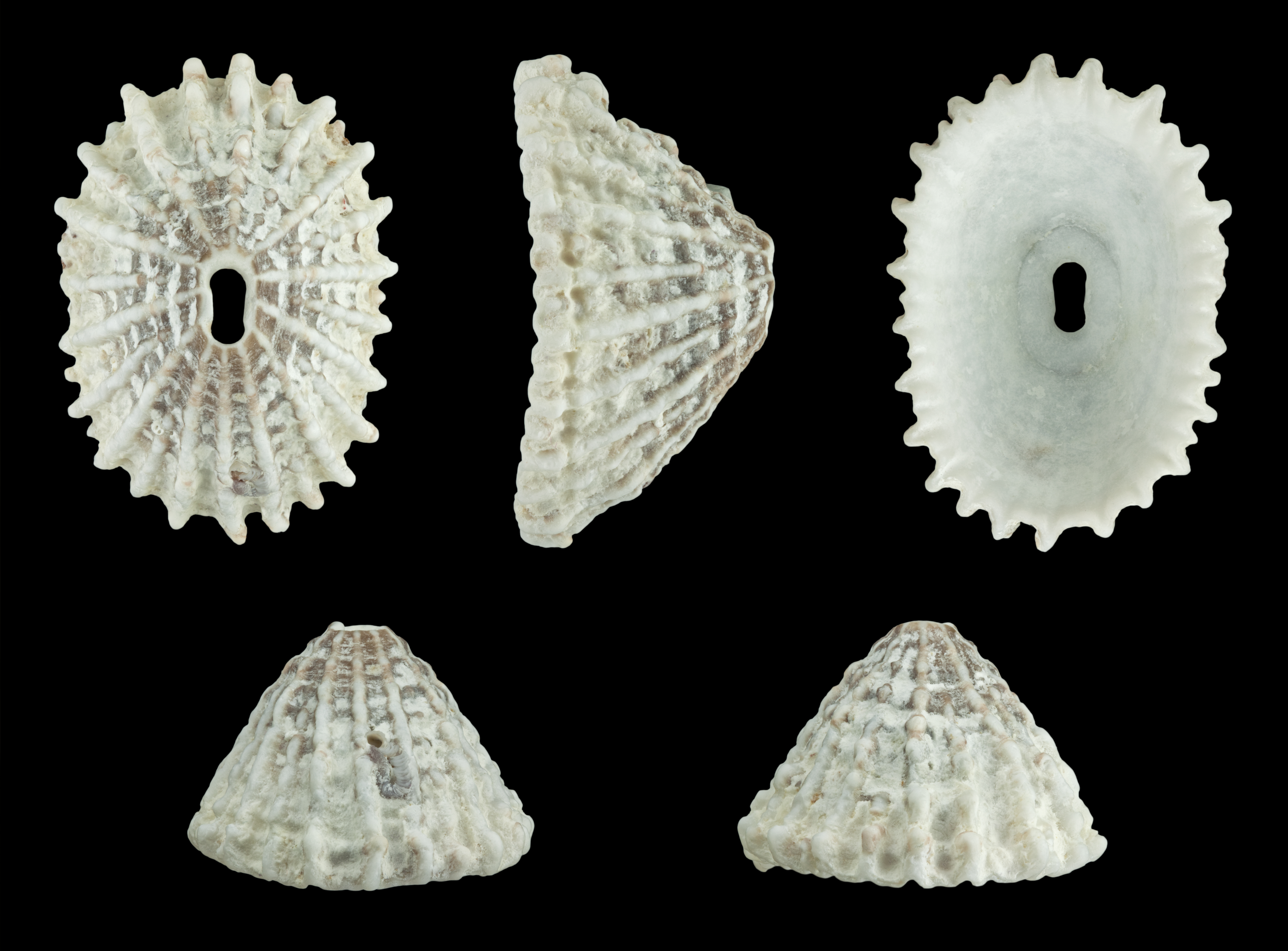 Fissurella nodosa (Born, 1778), Knobbed Keyhole Limpet; Length 2.9 cm; Originating from Bonaire; Shell of own collection, therefore not geocoded.